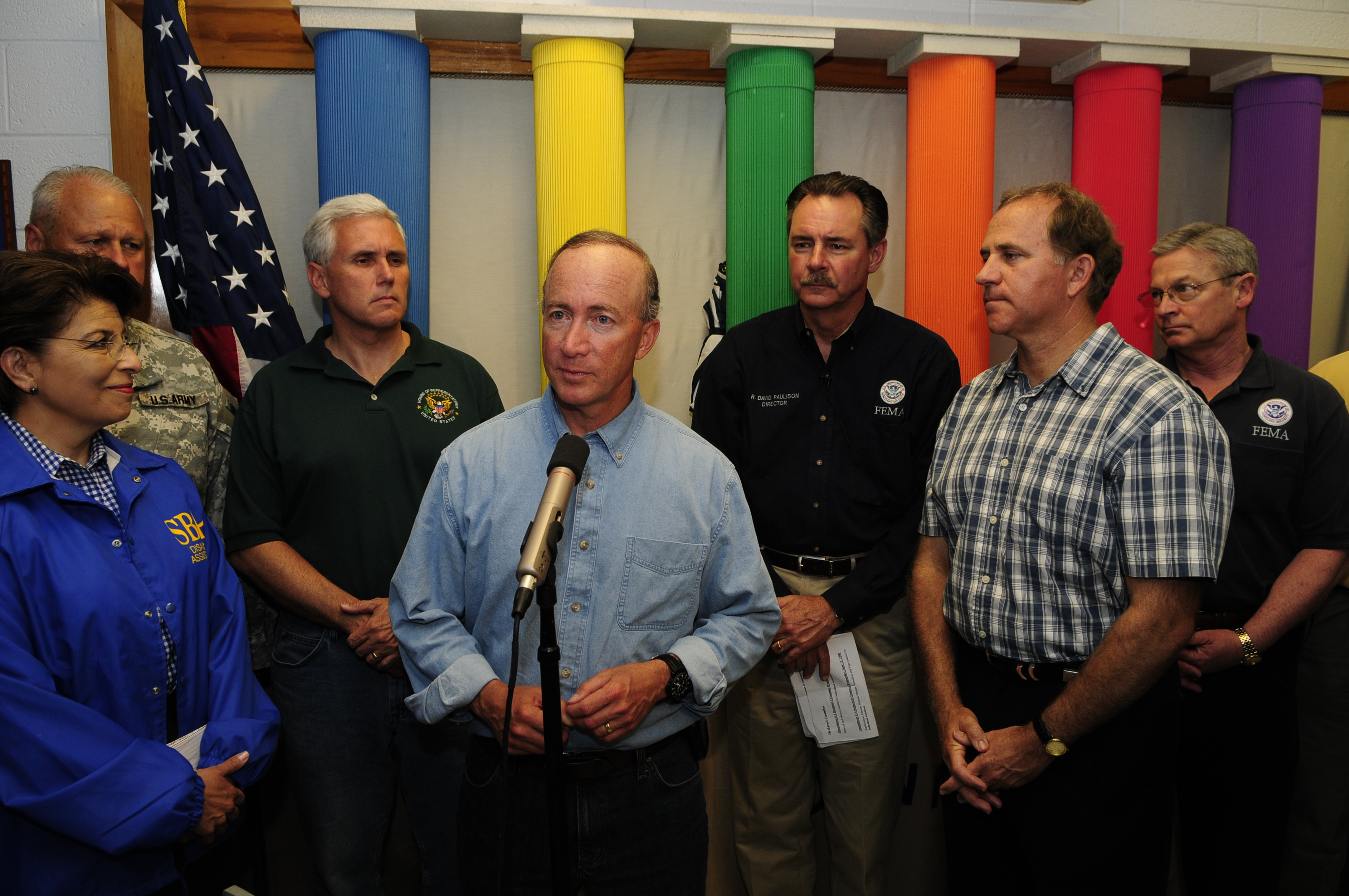 Martinsville, IN, June 13, 2008 -- Indiana Governor, Mitch Daniels, addresses state and federal assistance available to tornado and flood victims in his state. Joining him are (L-R): U.S. Small Business Administration, Deputy Jovita Carranza; National Guard TAG, Maj.Gen. Marty Umbarger; Congressman, Michael Pence; FEMA Administrator, R. David Paulison; Congressman, Steve Buyer and FEMA Region V, Federal Coordination Officer (FCO) Mike Smith. Barry Bahler/FEMA